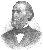 This image of the Rev. Calvin Fairbank (1816-1898) originally appeared in his memoirs, Rev. Calvin Fairbank during slavery times: how he "fought the good fight" to prepare "the way" / edited from his manuscript, published 1890 by R.R. McCabe, Chicago, and reproduced in digital facsimile by Kentuckiana Digital Library.